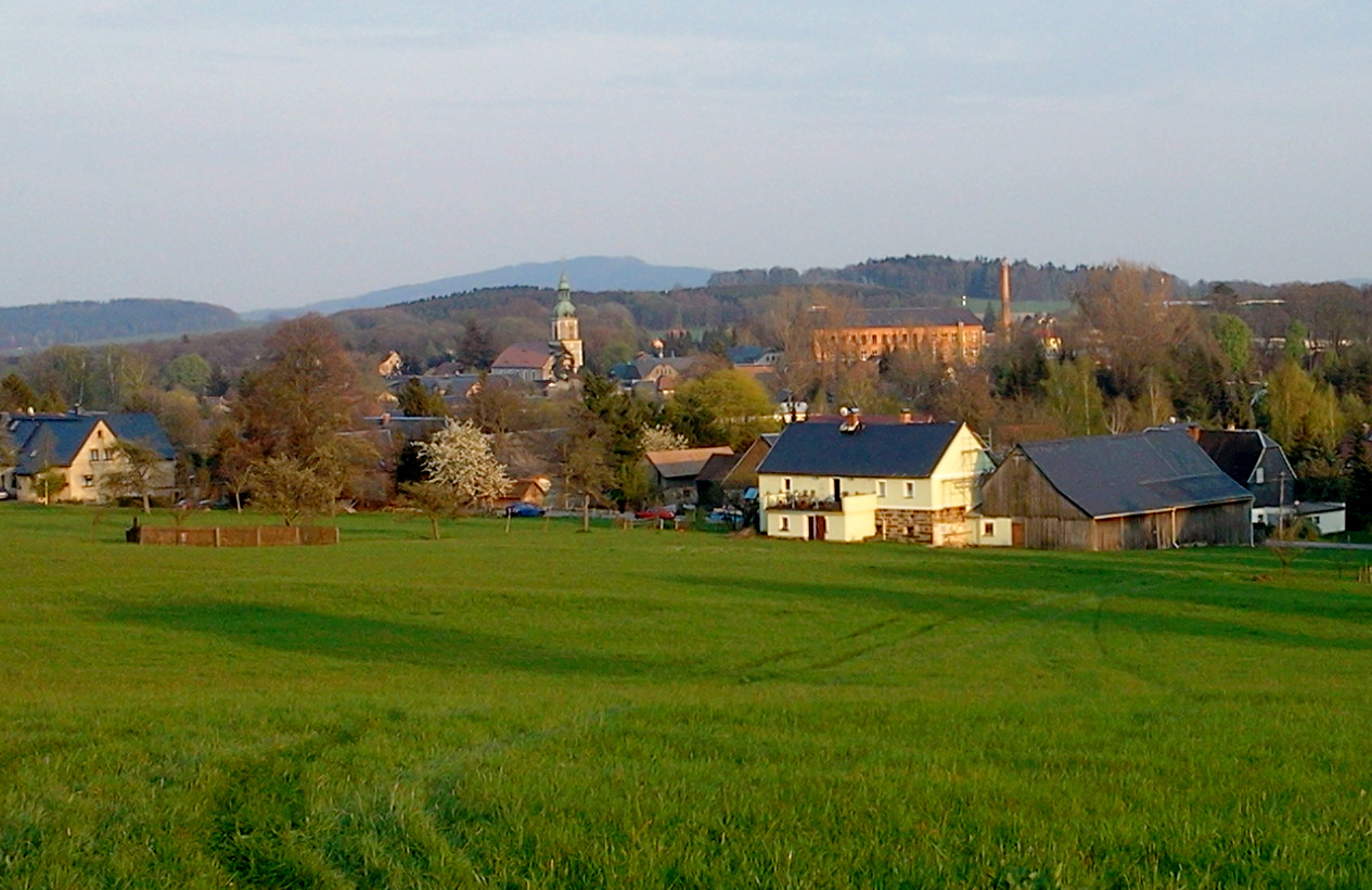 Schoenbach/Saxony from Beiersdorf